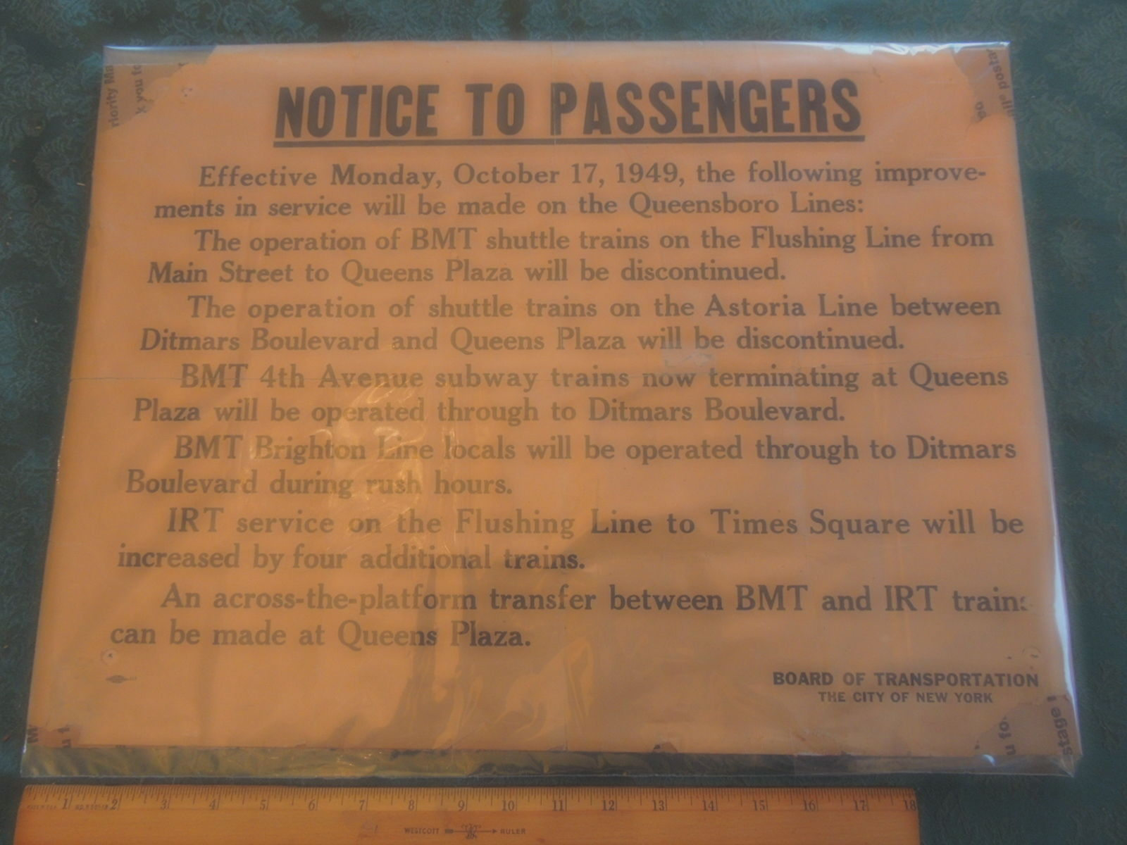 This is a poster created by the New York Board of Transportation in October 1949 to inform passengers of a service change to the city's transportation system on the 17th of that month. This service change ended the joint-BMT/IRT Division operation of the Flushing and Astoria Lines. The former was given to the IRT, and the latter was given to the BMT, and its platforms were shaved back so that the larger B Division cars could fit.